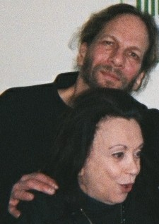 Hanon Reznikov and Judith Malina of The Living Theatre at Marjorie Housepian Dobkin's apartment in June or July of 2003